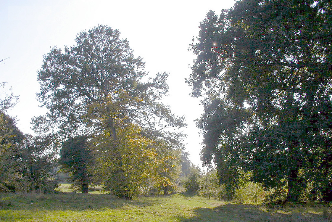 Trees in Morden Park. View westward from hilltop off Hillcross Avenue.